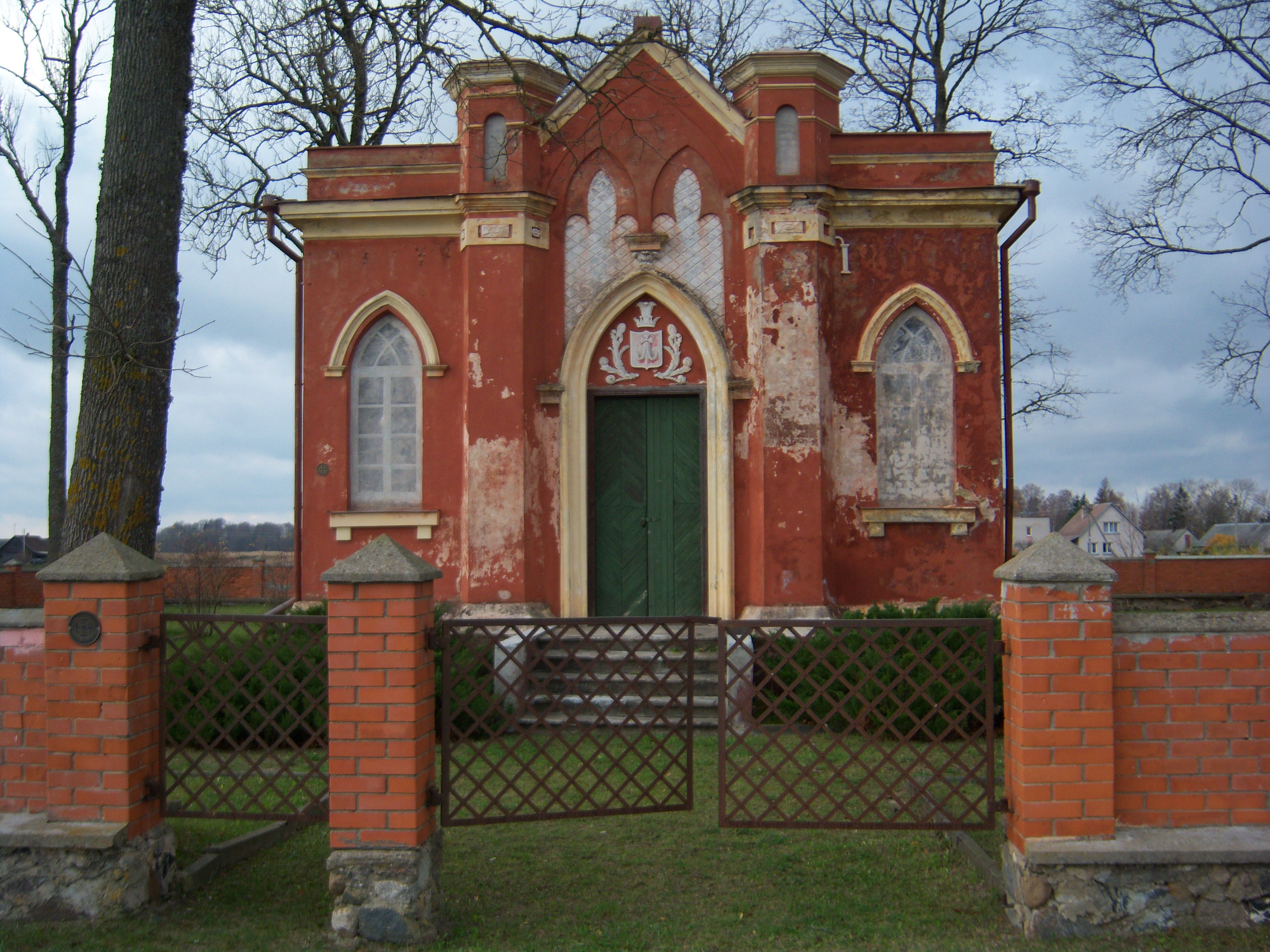 Raguvėlė chapel, Anykščiai District, Lithuania